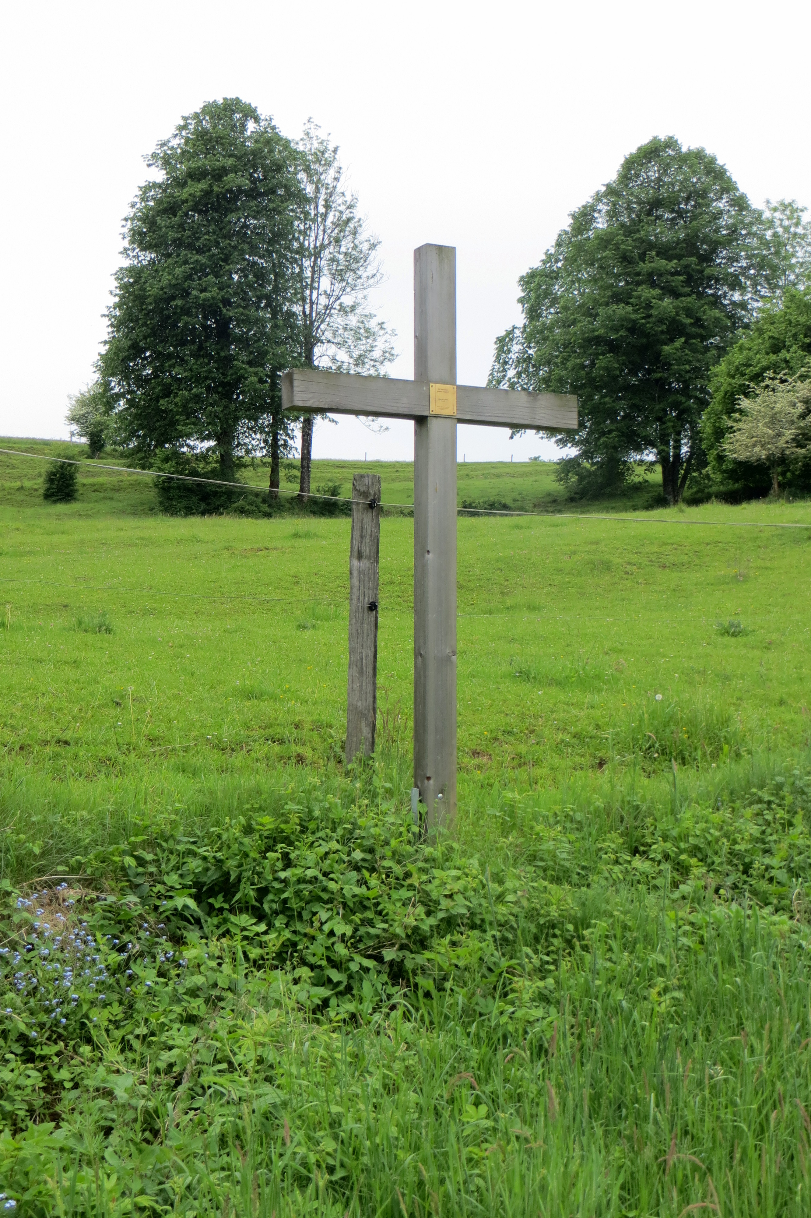 Marker at the Mozelj Mass Grave in Mozelj, Municipality of Kočevje, Slovenia